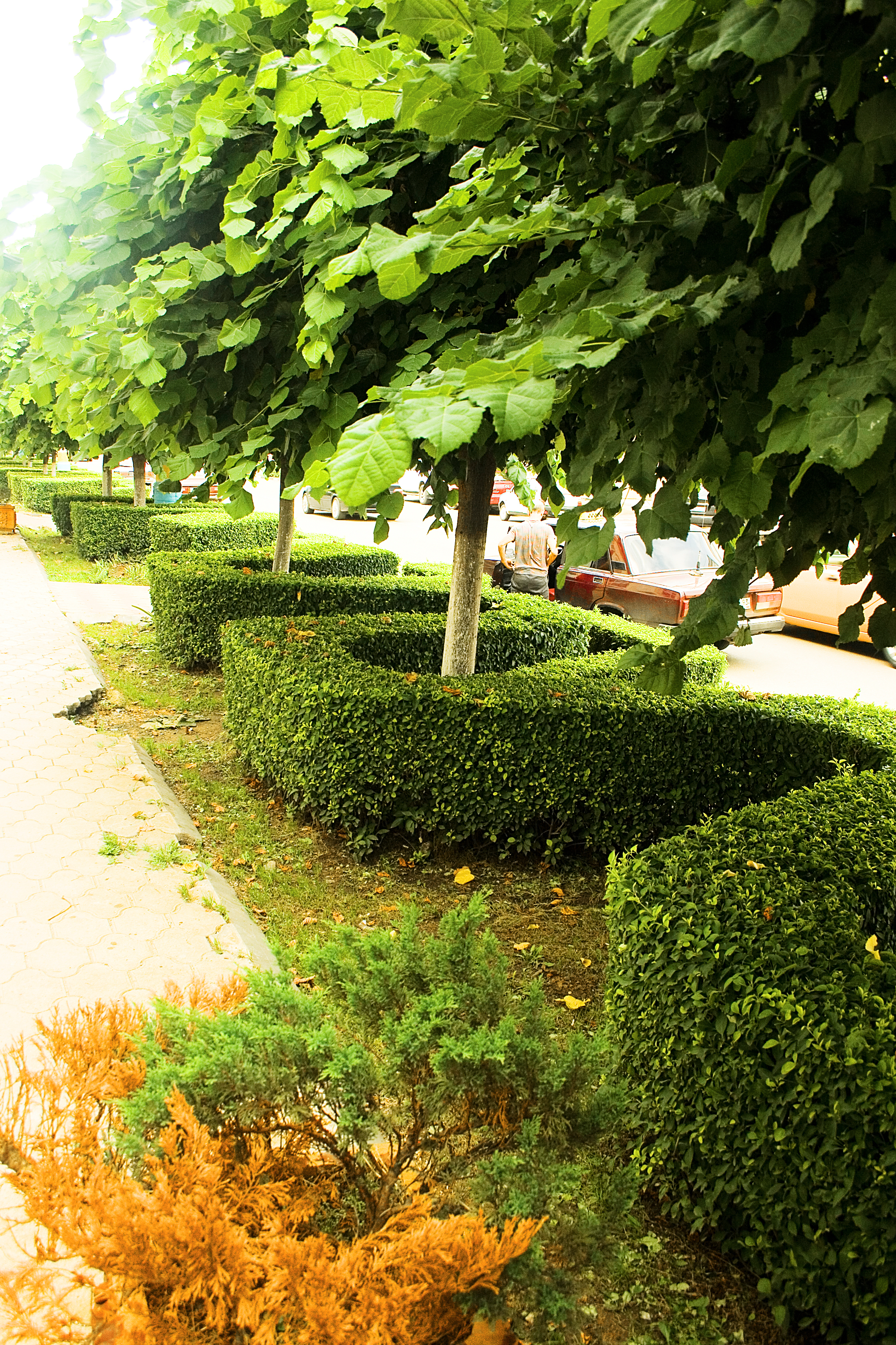 Армавир 2011 (0003)